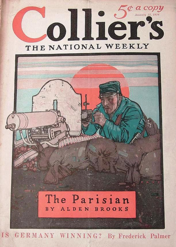 Scan of Collier's Weekly magazine cover